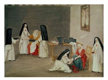 Caring for the Sick, from 'L'Abbaye De Port-Royal' ca. 1710